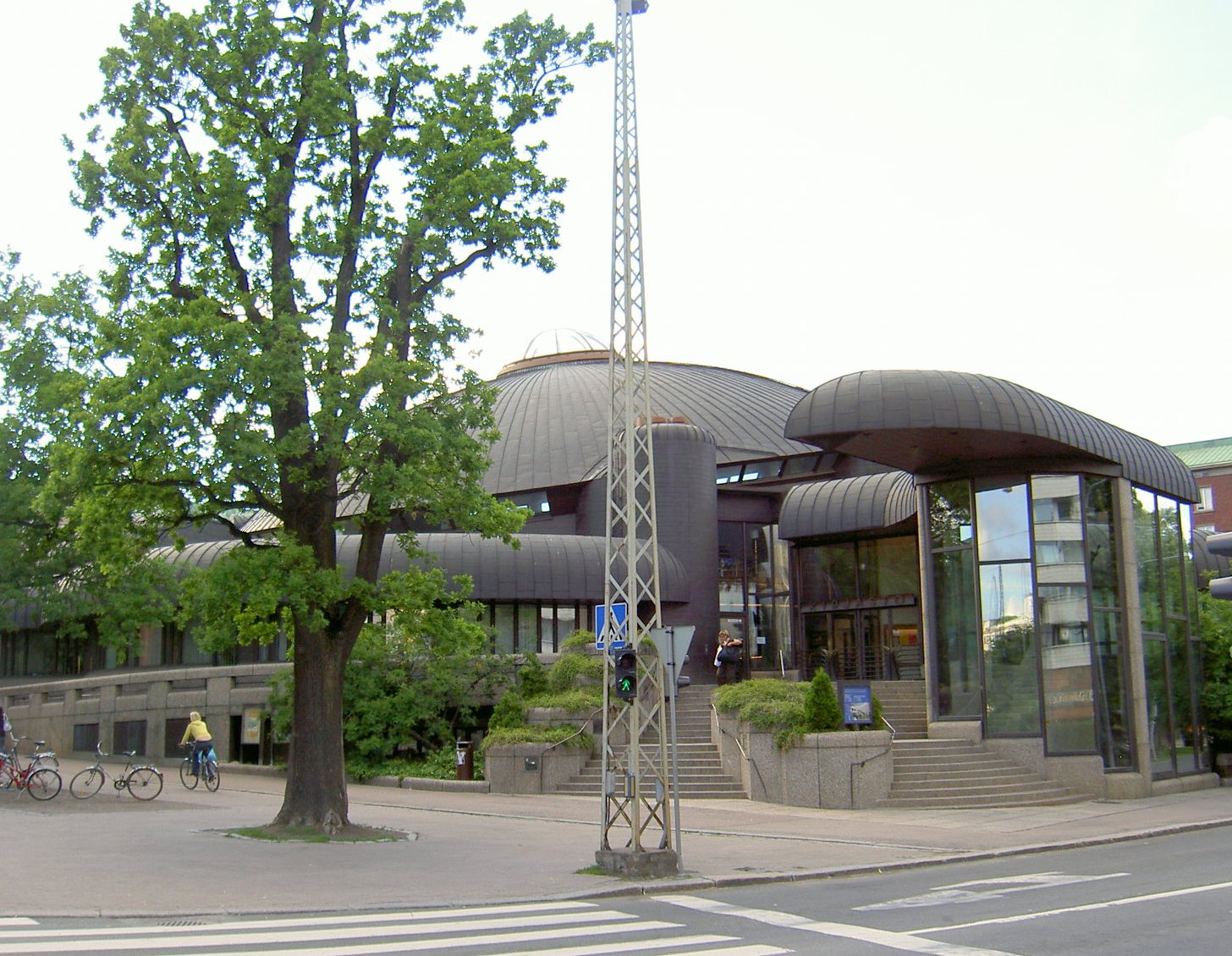 Tampere's main library Metso